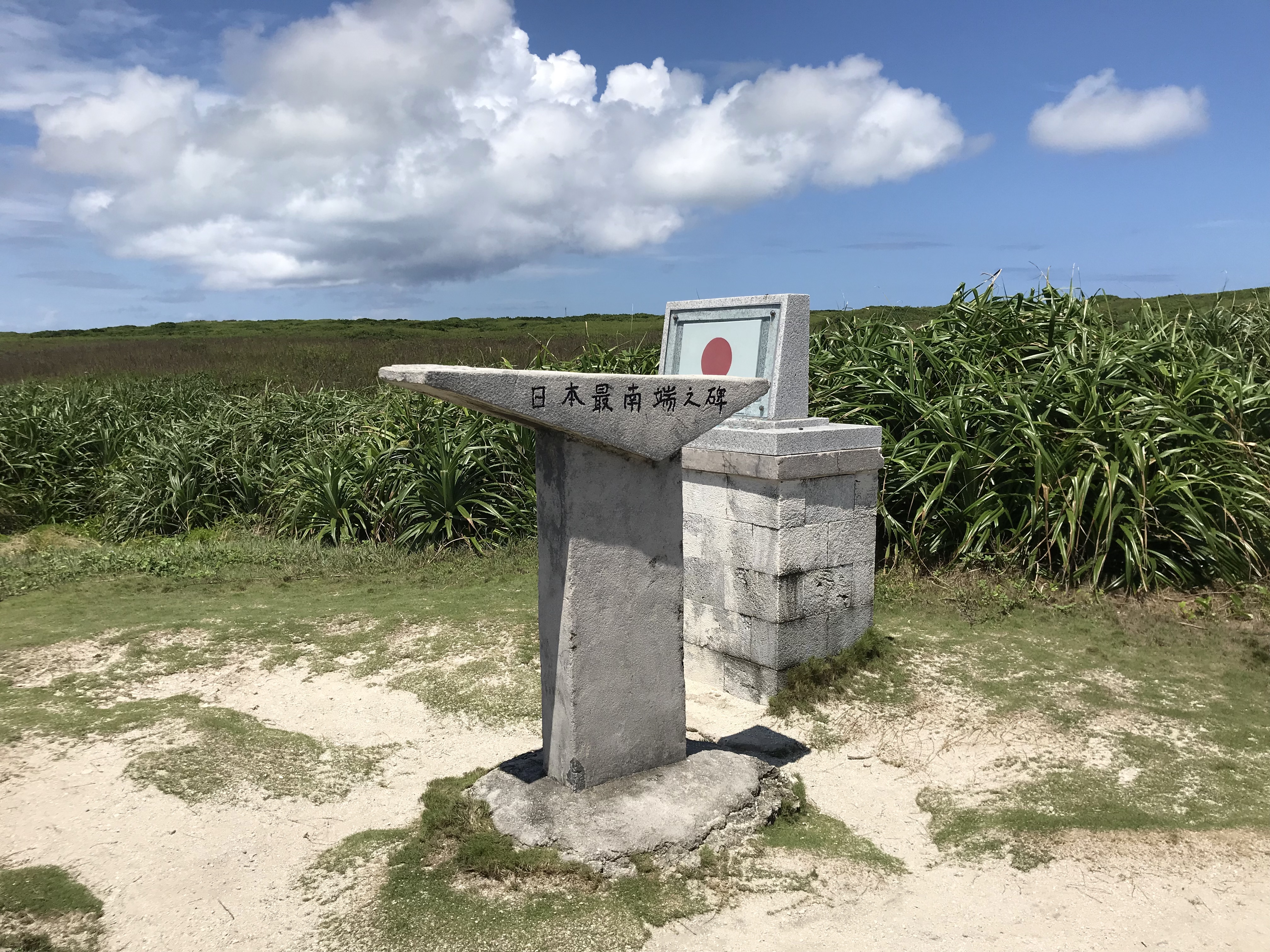 Monument at the southernmost point of Japan on Hateruma Island in Taketomi, Okinawa